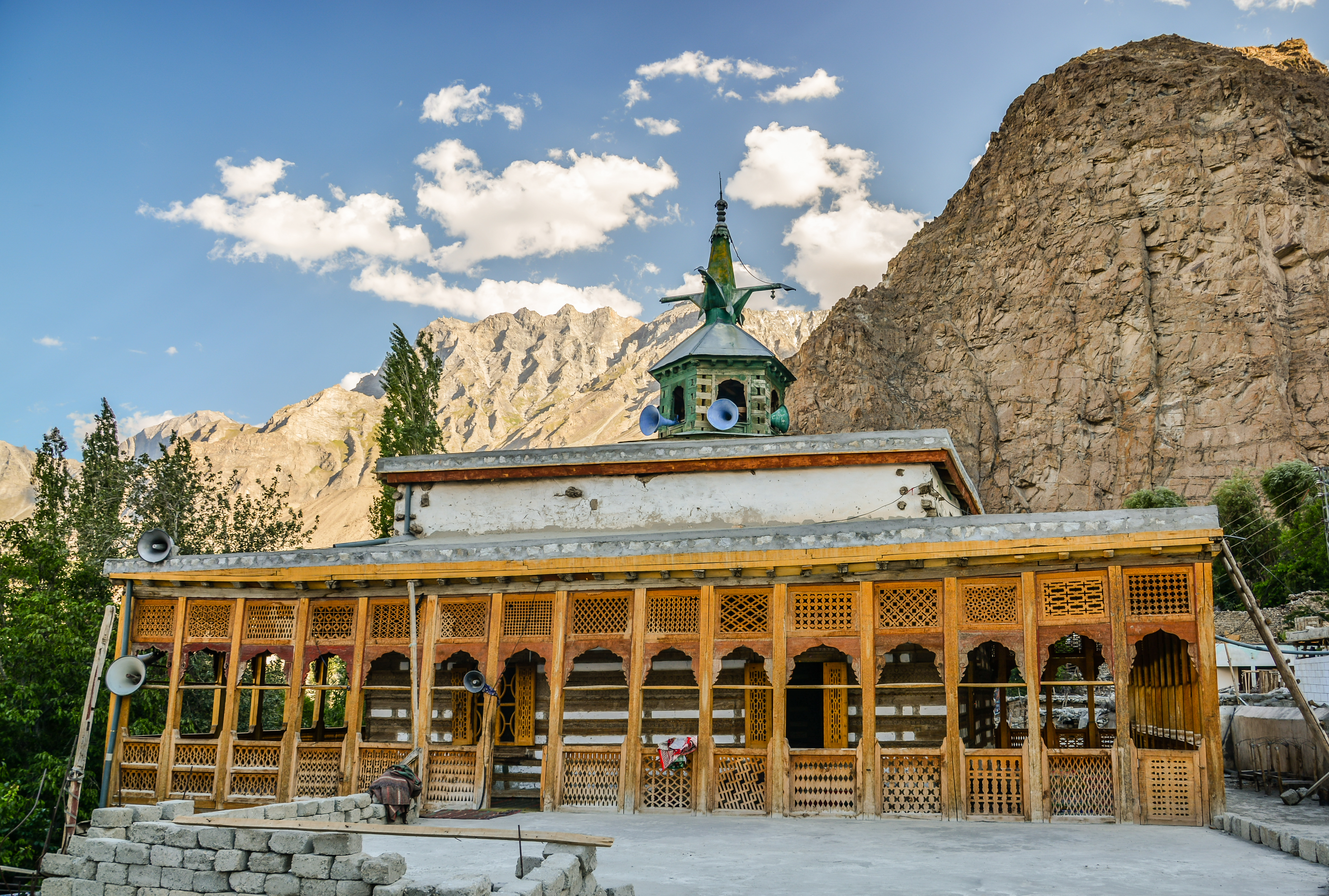 Chaqchan Mosque c. 14th century This is a photo of a monument in Pakistan identified as the GB-6